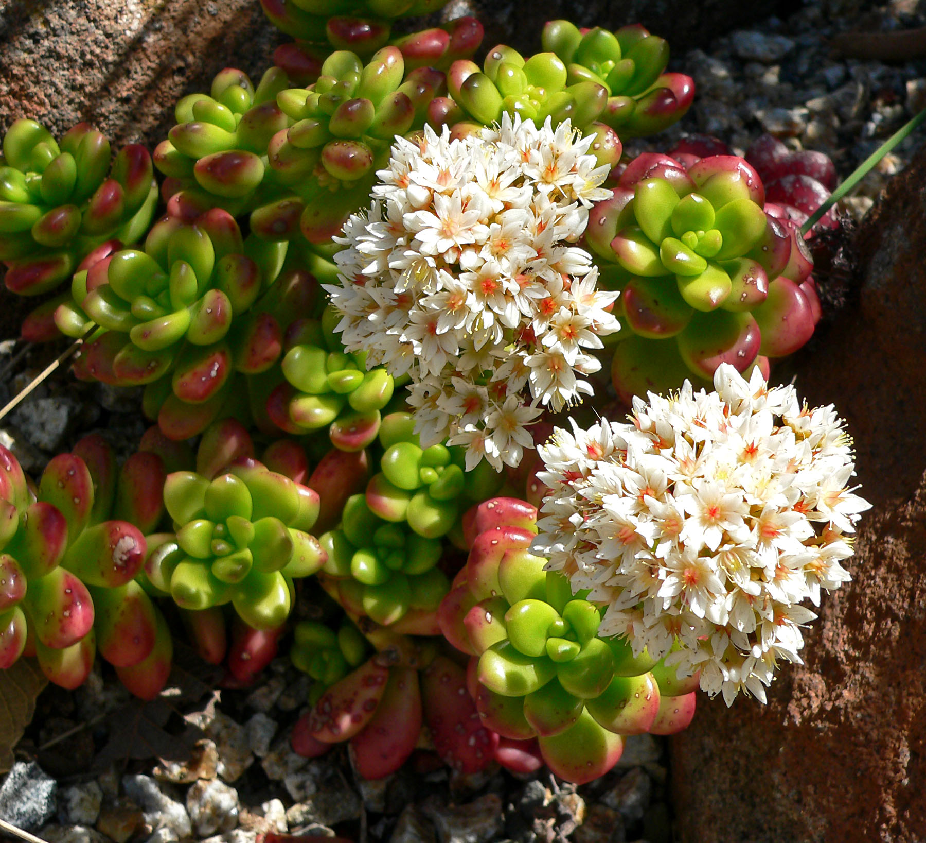 Sedum lucidum at the University of California Botanical Garden, Berkeley, California